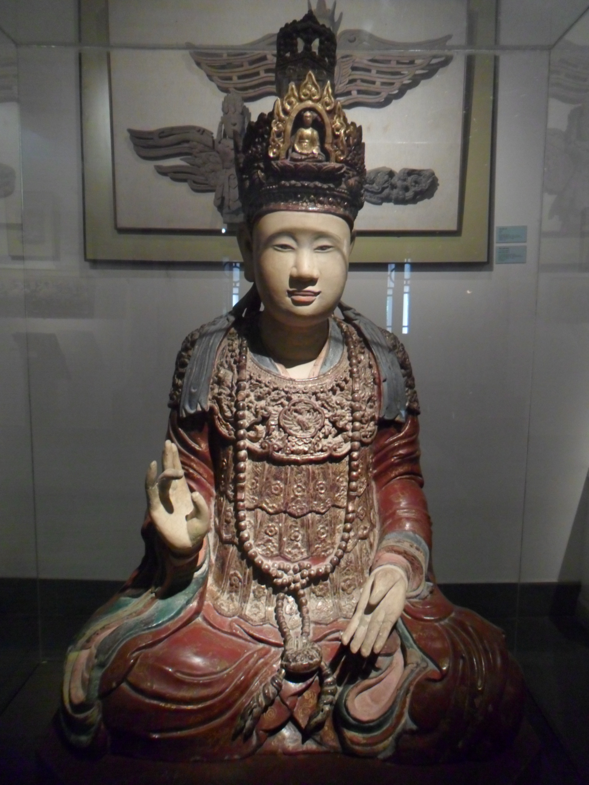 Statue of Queen Trinh Thi Ngoc Truc, early 17th century, lacquered wood, Vietnam Fine Arts Museum, Hanoi. National treasure of Vietnam no. 19 - set 2